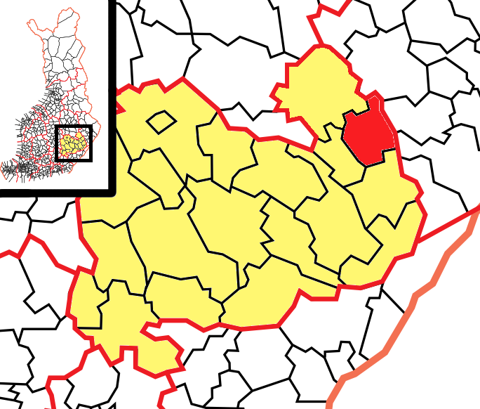 (Description=Public domain, originally created by User:Pertsaboy for a 'Location of Heinävesi.png'. This license applies worldwide. )